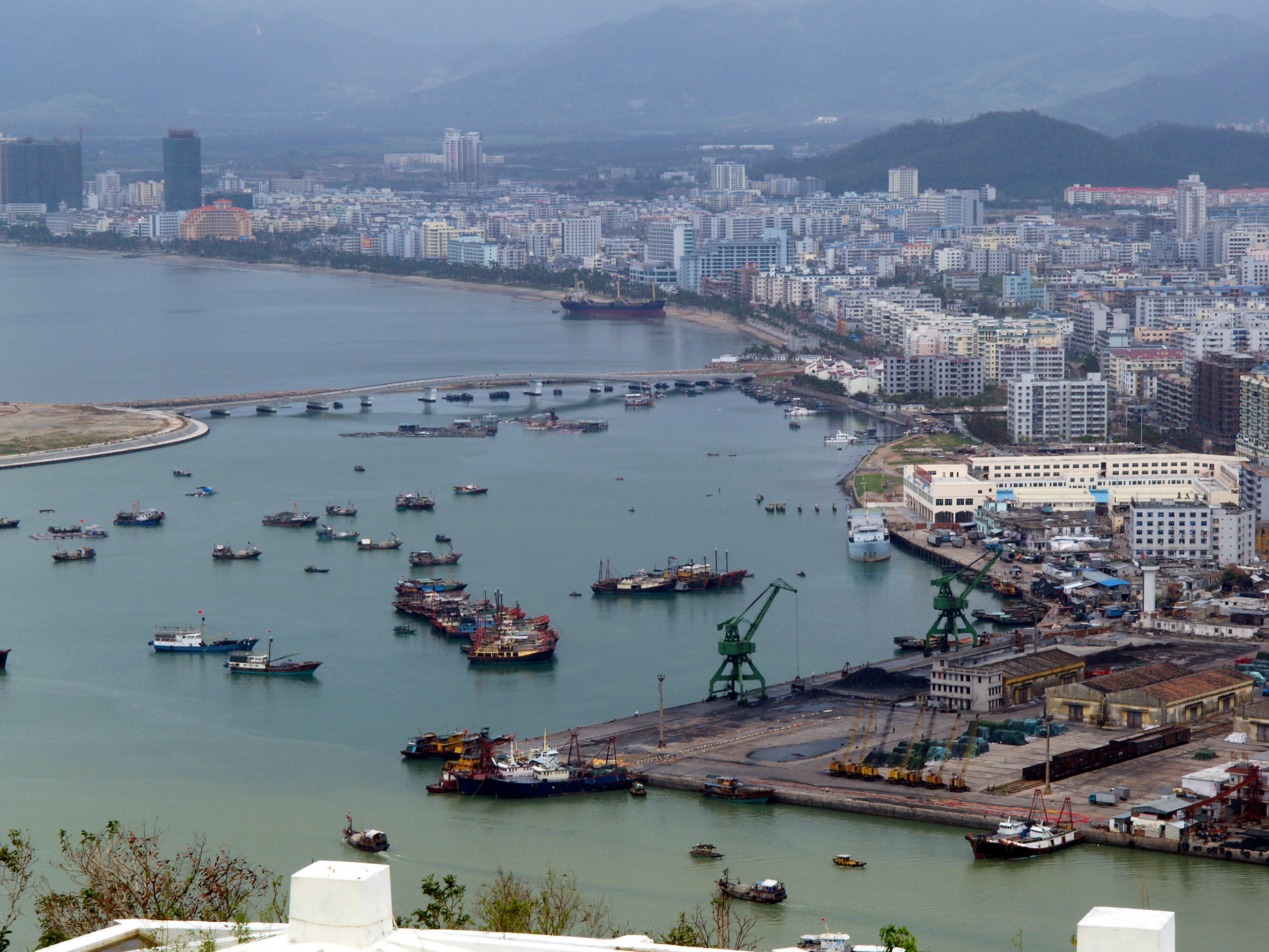 海南三亞市全景左（Left part of City Sanya in Hainan China)